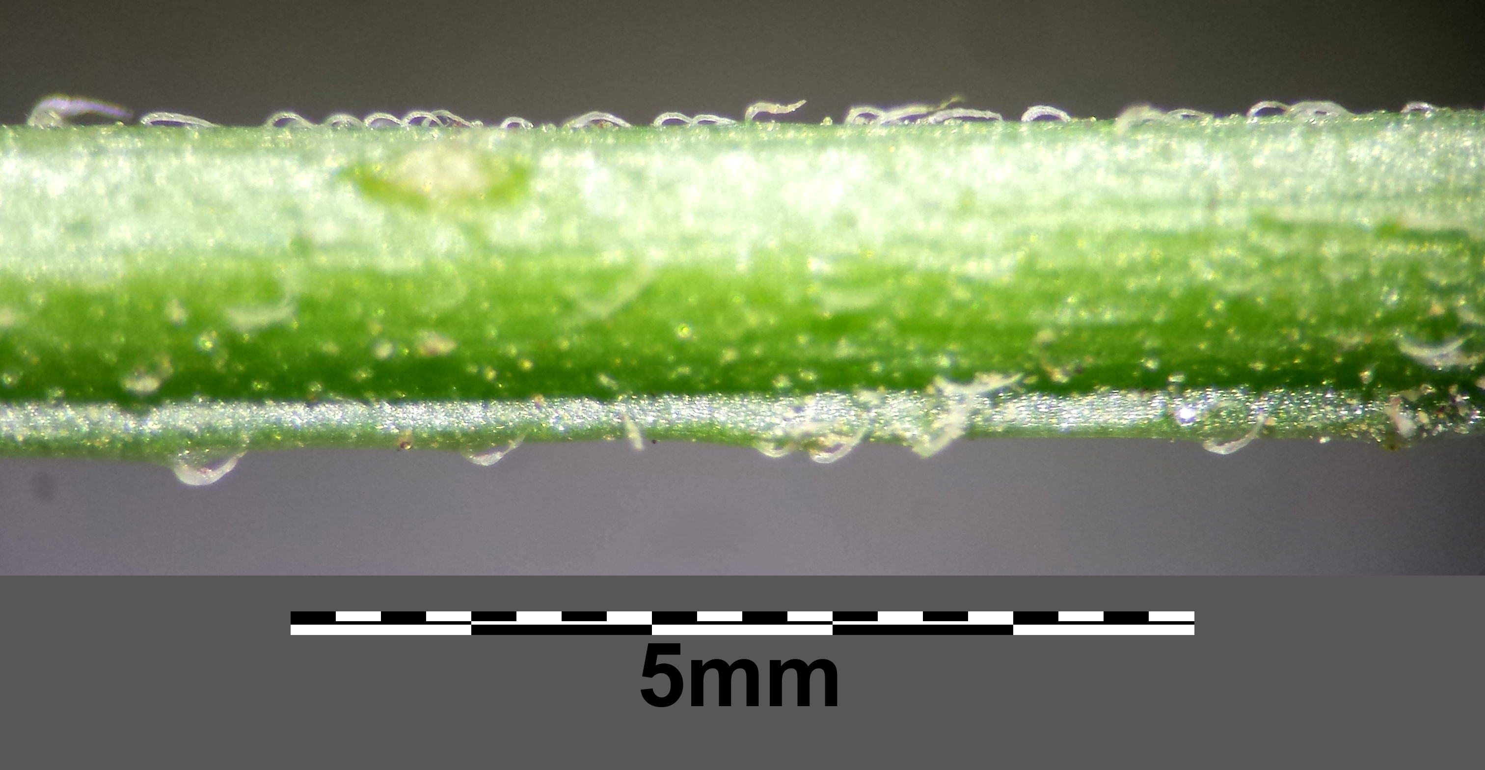 Stipe with adjacent hairs Taxonym: Solanum nigrum subsp. nigrum ss Fischer et al. EfÖLS 2008 ISBN 978-3-85474-187-9 Location: to the south of Schleinbach, district Mistelbach, Lower Austria - ca. 275 m a.s.l. Habitat: border of a field